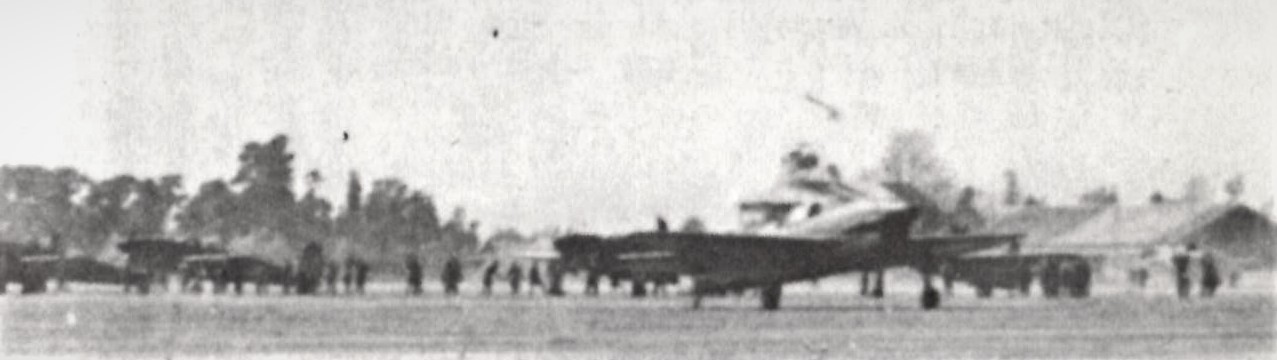 Judy belonging to the Fuyo Squadron taking off from Fujieda base towards Kanoya base